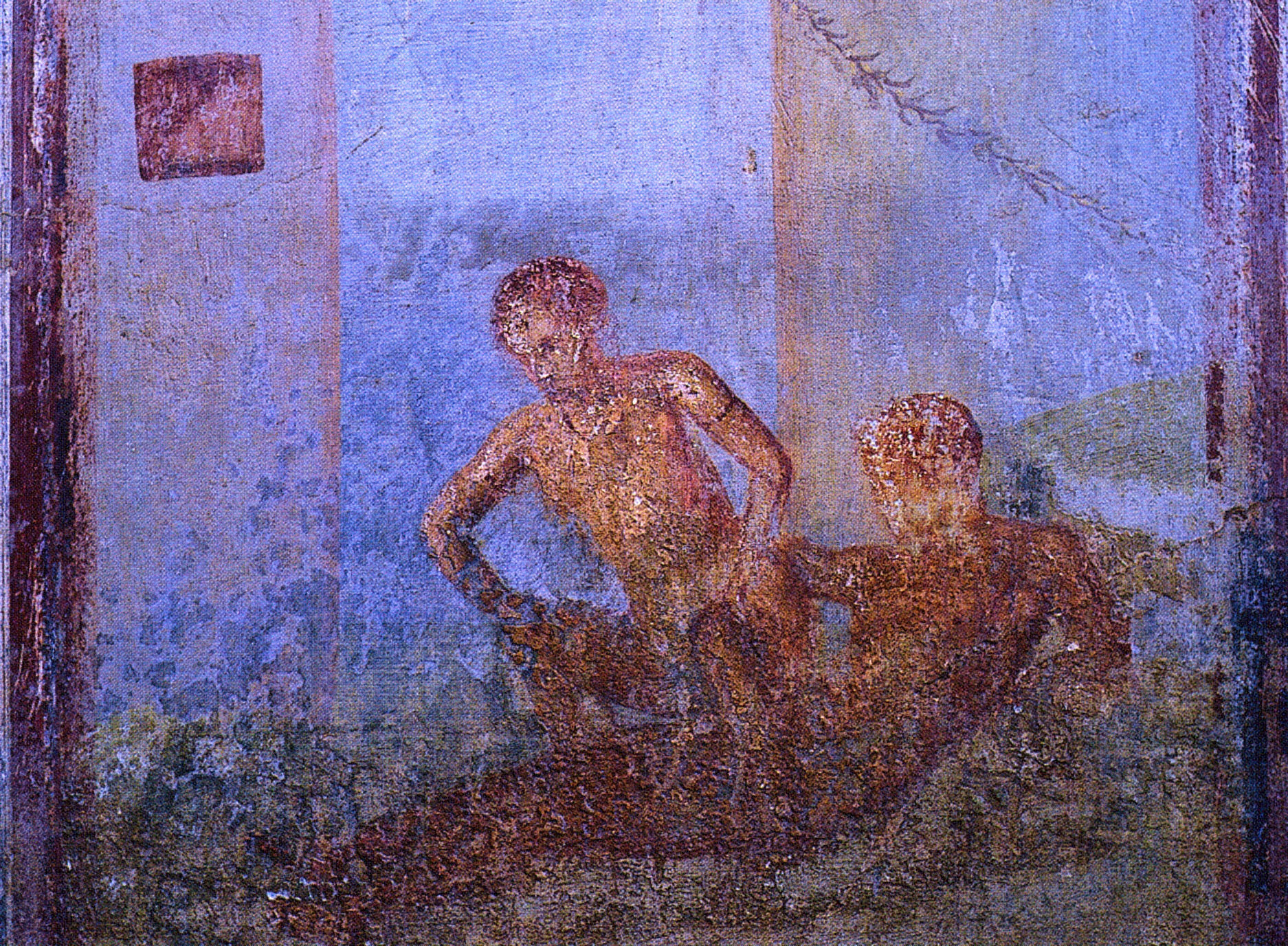 Detail of fresco of couple. Woman is sitting on mans lap, lowering herself on his penis. From northern wall of room 43 (Cubiculum) in the Casa del Centenario (IX 8,3) in Pompeii, 1st Century.